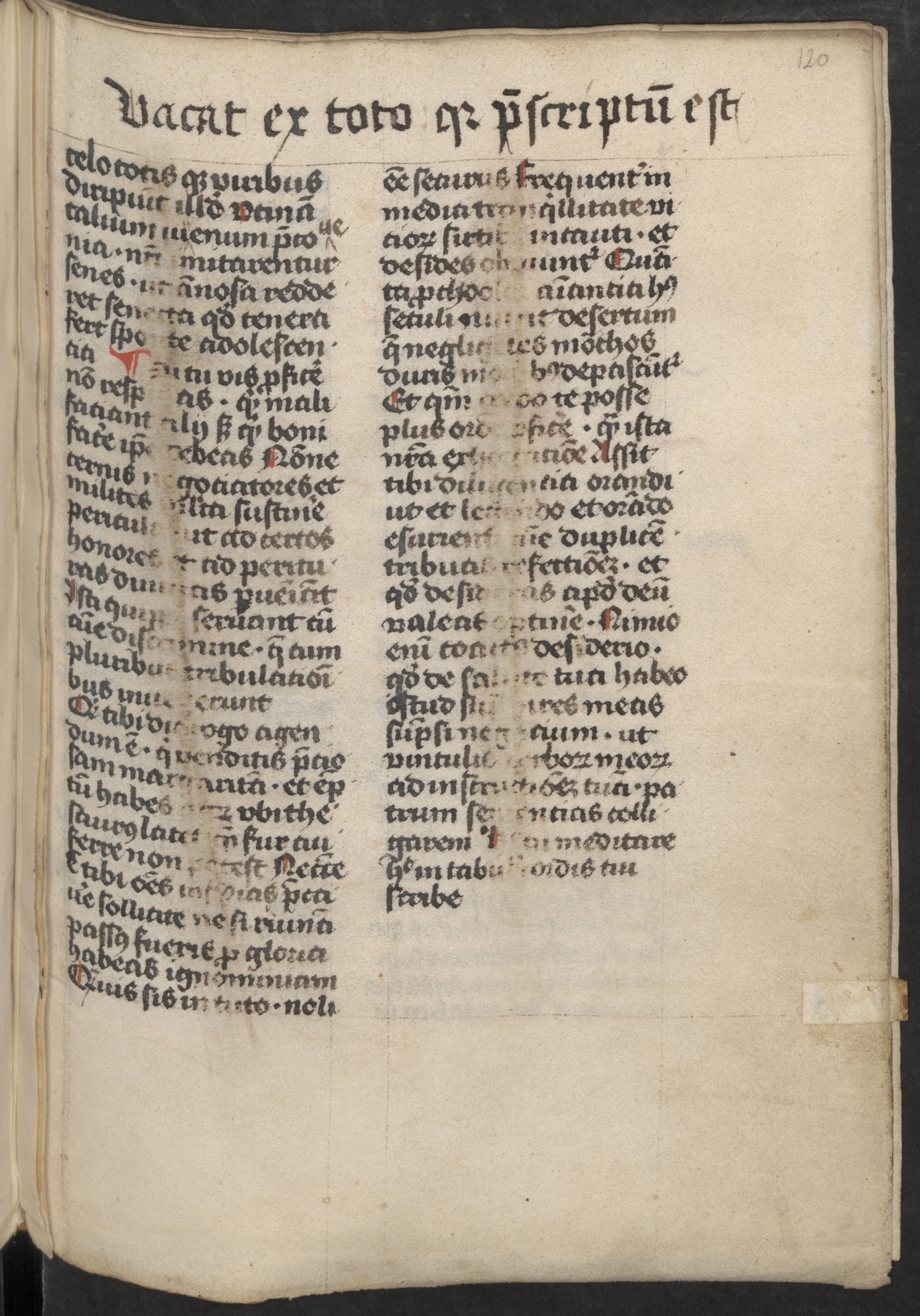 Ms.163, fol. 120r.